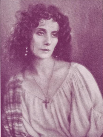 Anna Pavlowa, from a 1921 publication. Photography by Eugene Hutchinson of Chicago.